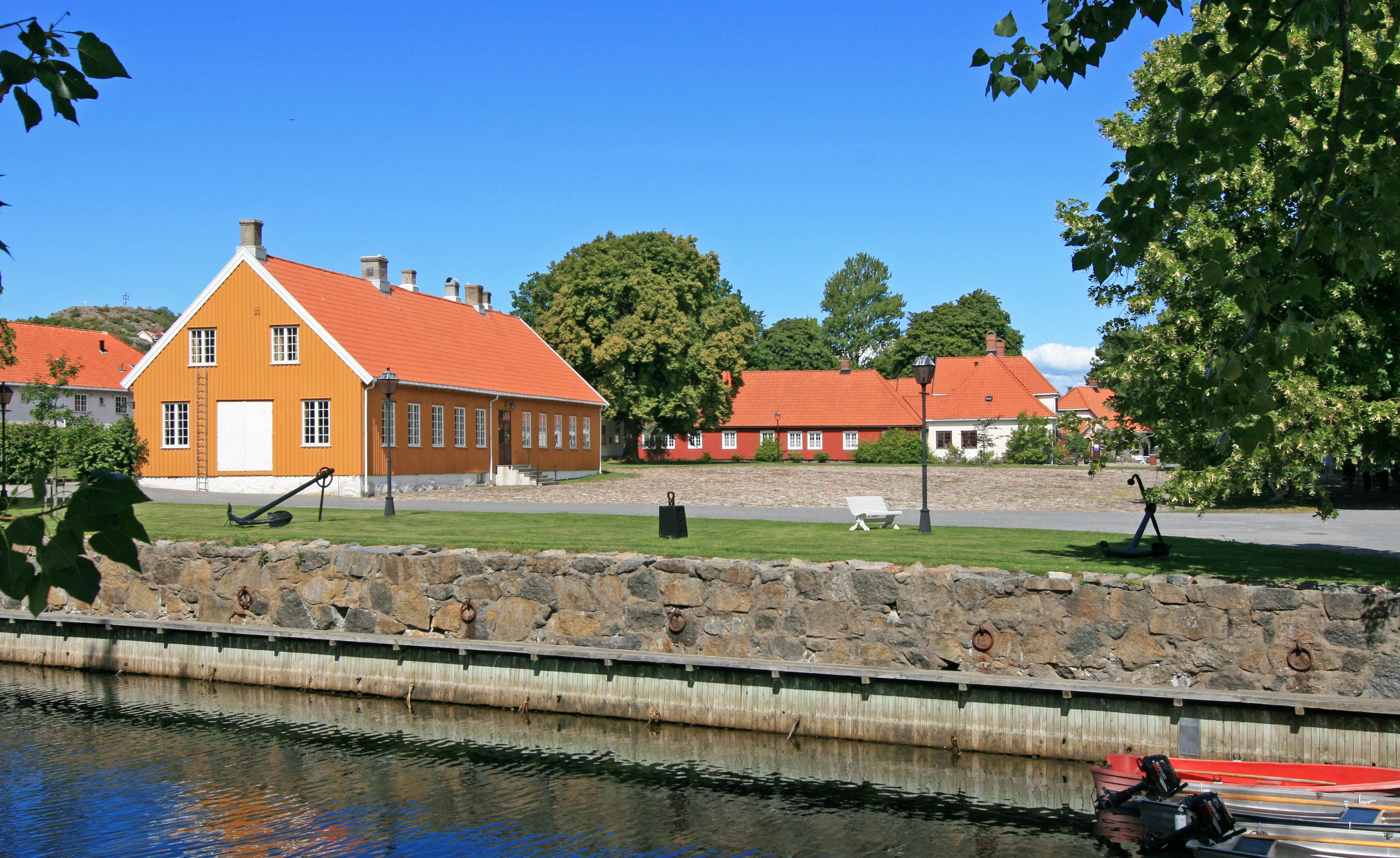 Fredriksvern naval wharf, Stavern, Norway.